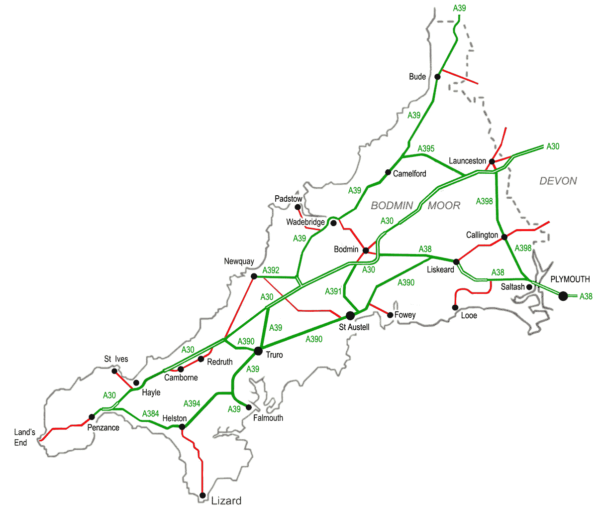 Diagramatic map of the road network in Cornwall 2008